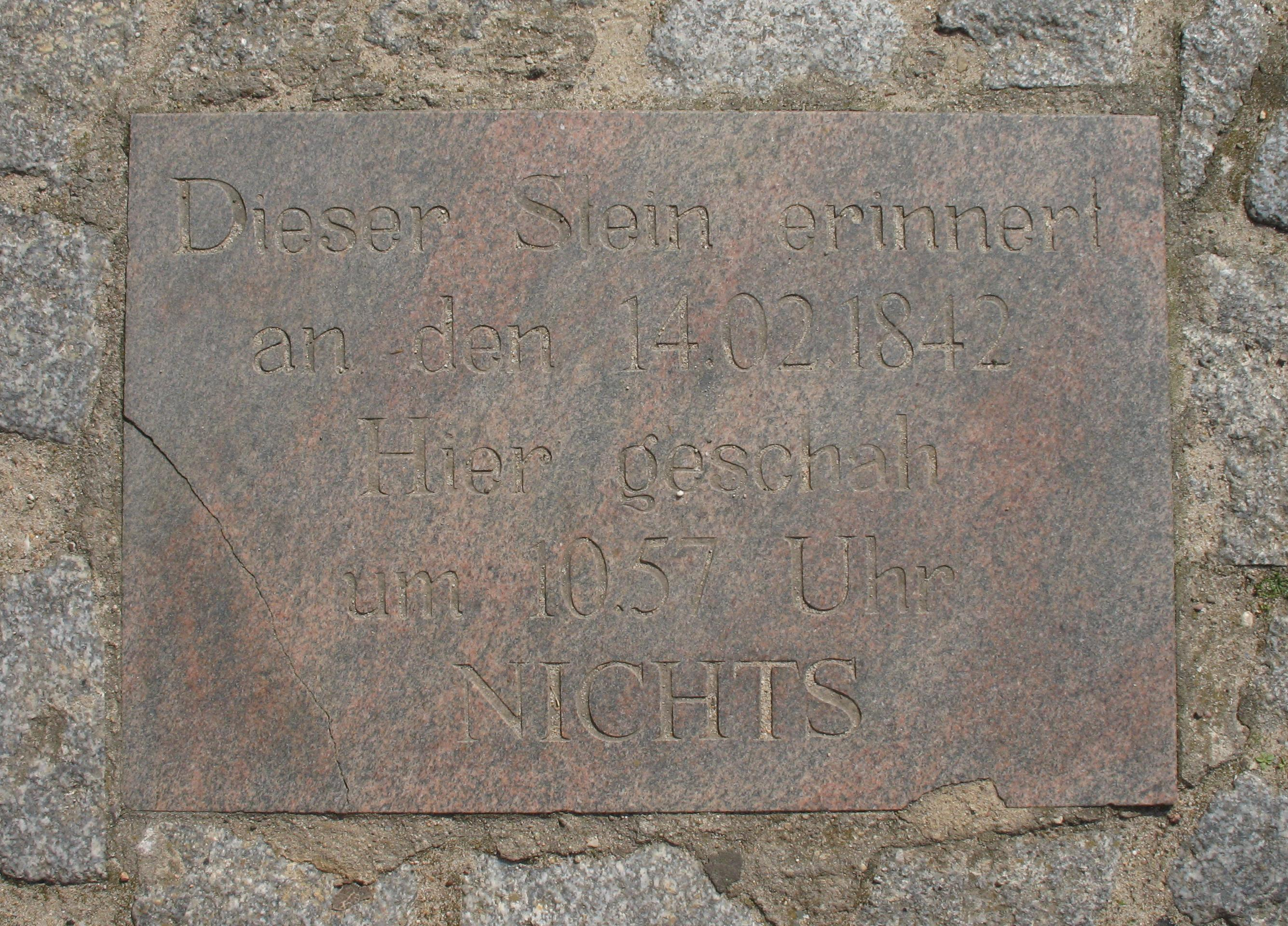 Plaque on the marketplace in Kyritz in Brandenburg, Germany. Translation: This stone reminds of the 14th February 1842. Nothing happened here at 10:57.